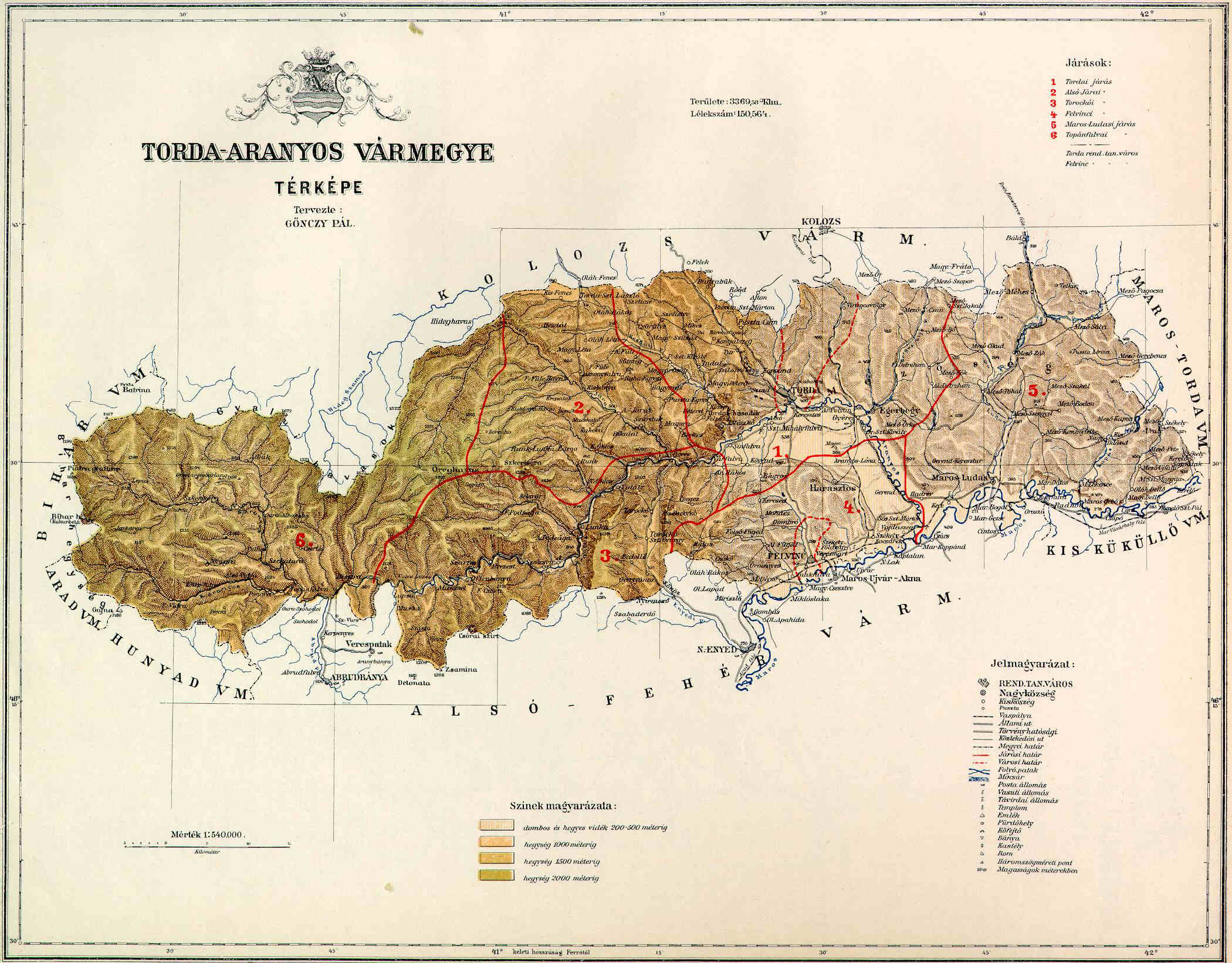 County of Torda-Aranyos in the pre-Trianon Kingdom of Hungary. Komitat Torda-Aranyos w Królestwie Węgier przed traktatem w Trianon.